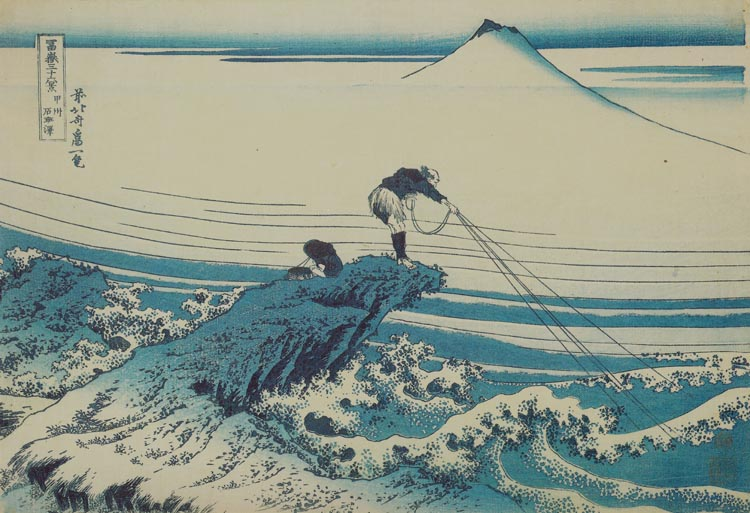 Part of the series Thirty-six Views of Mount Fuji, no. 45, 9th additional woodcut.